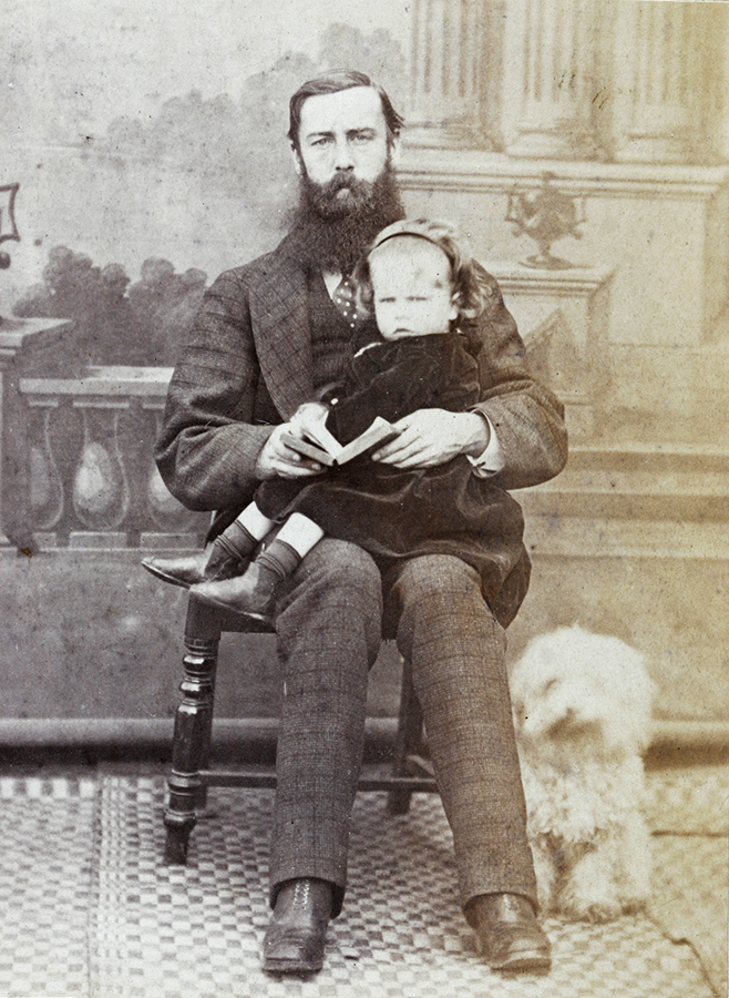 Edward Charles MacIntosh Bowra (1841-1874) sits with a child (possibly his daughter Ethel) and a dog, circa 1870.